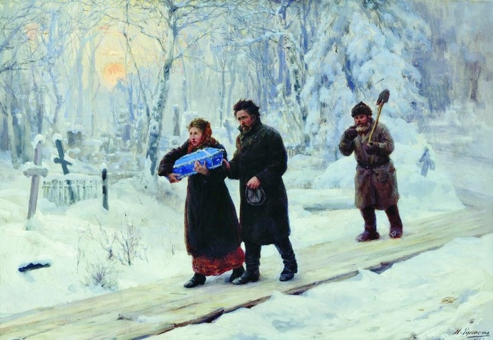 Nikolay Alexandrovich Yaroshenko. Funeral of Firstborn, 1893